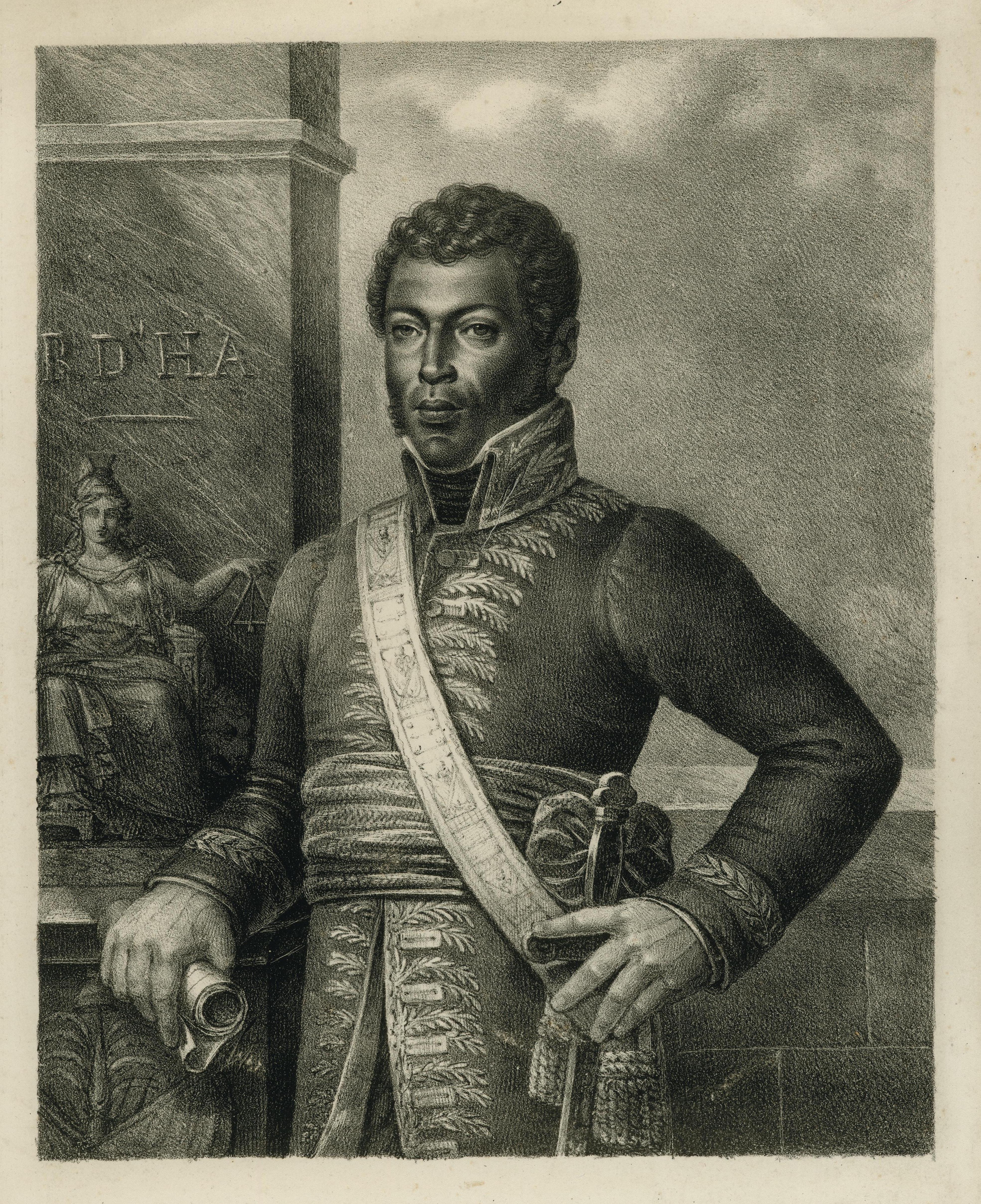 Portrait of Alexandre Sabés Pétion (1770-1818). Lithographer unknown.